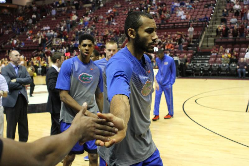 FSU Seminoles vs Florida Gators 2014/12/30